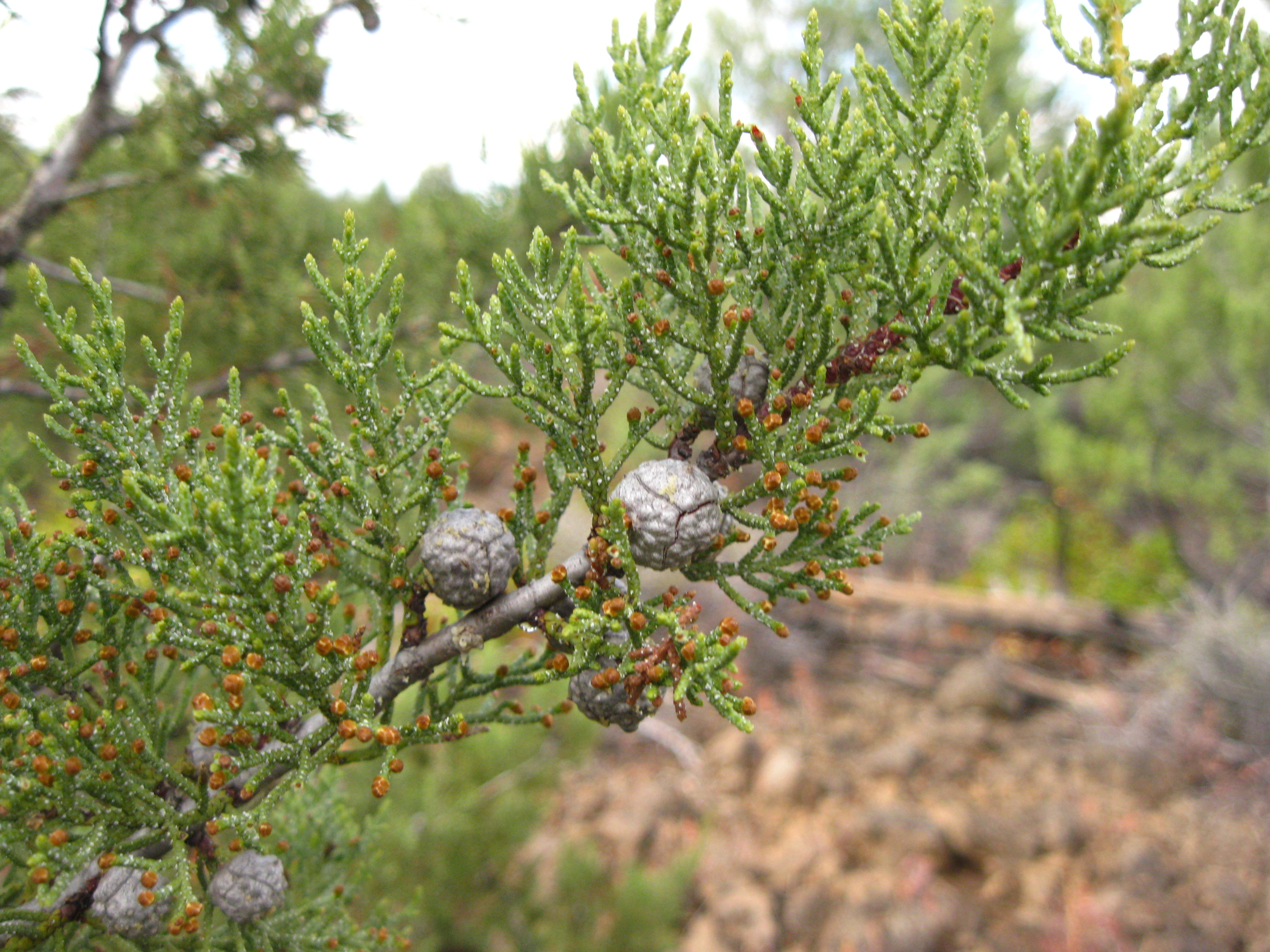 Cupressus bakeri foliage, Timbered Crater Population, California